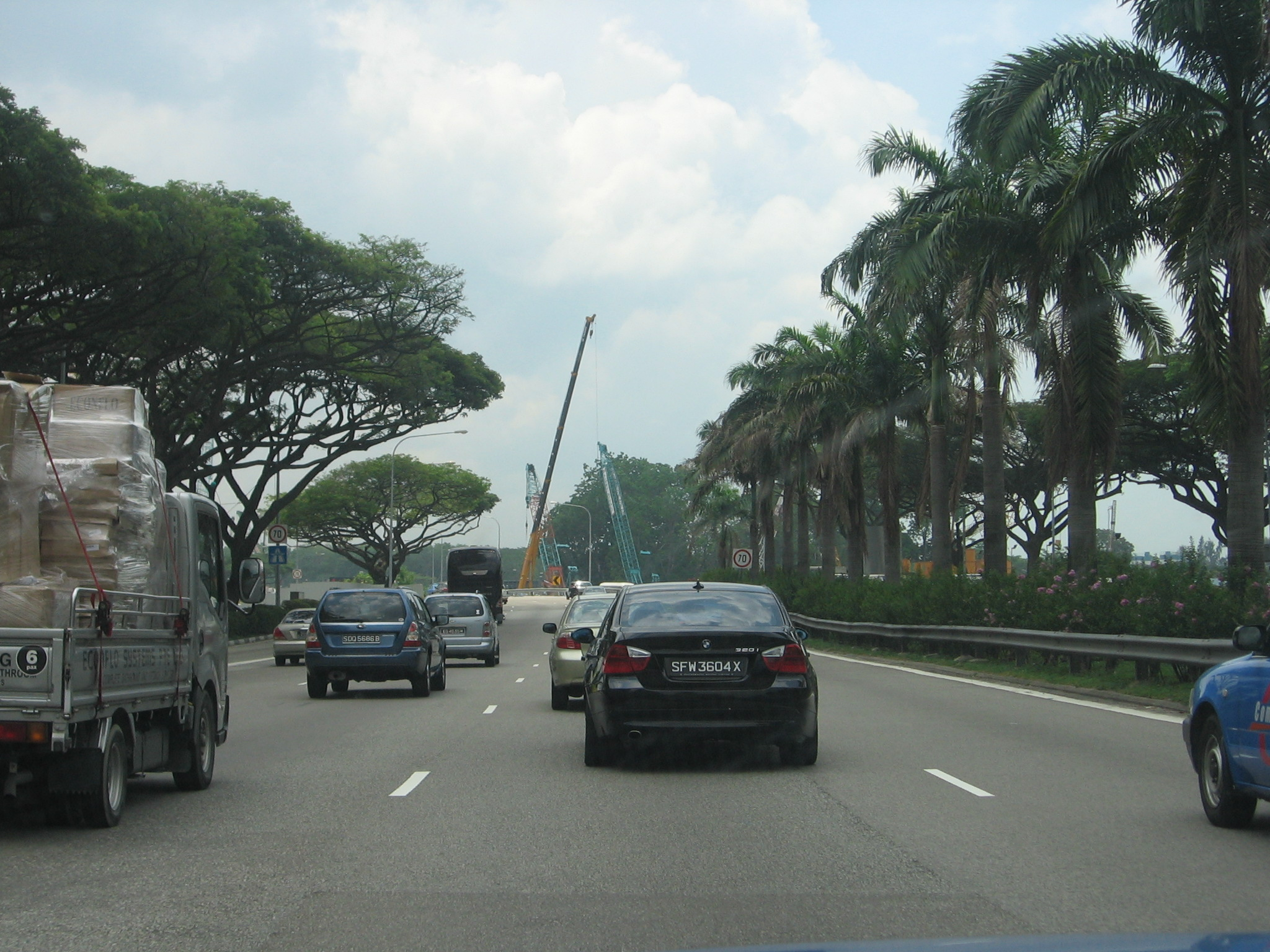 The East Coast Parkway in Singapore photographed from inside a moving vehicle.